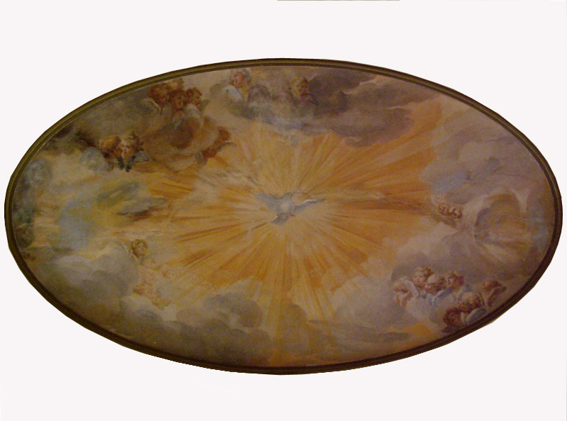 photo taken by Renato Clementi (2006)